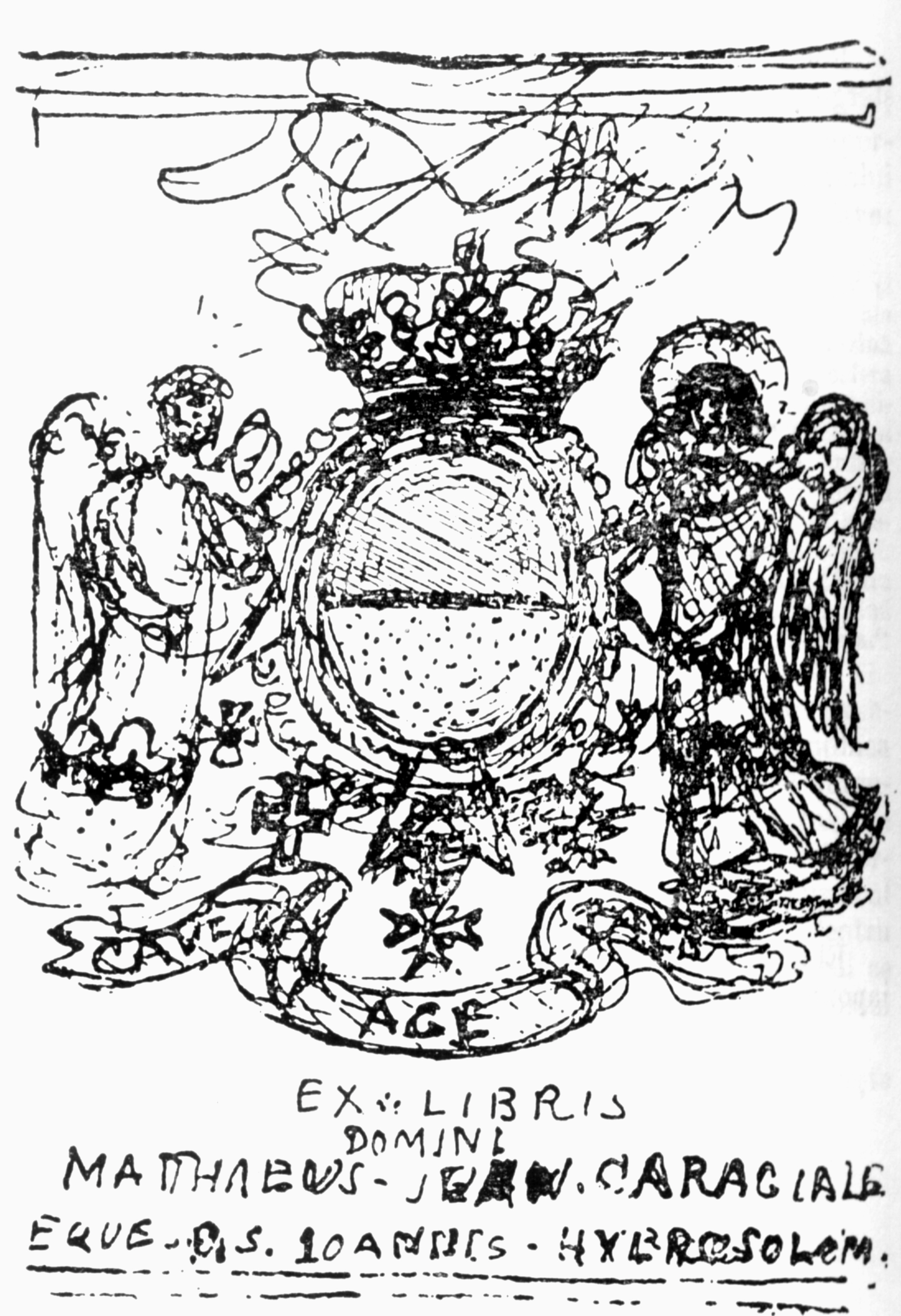 Ex libris by the Romanian writer Mateiu Caragiale, featuring a coat of arms he had designed for himself